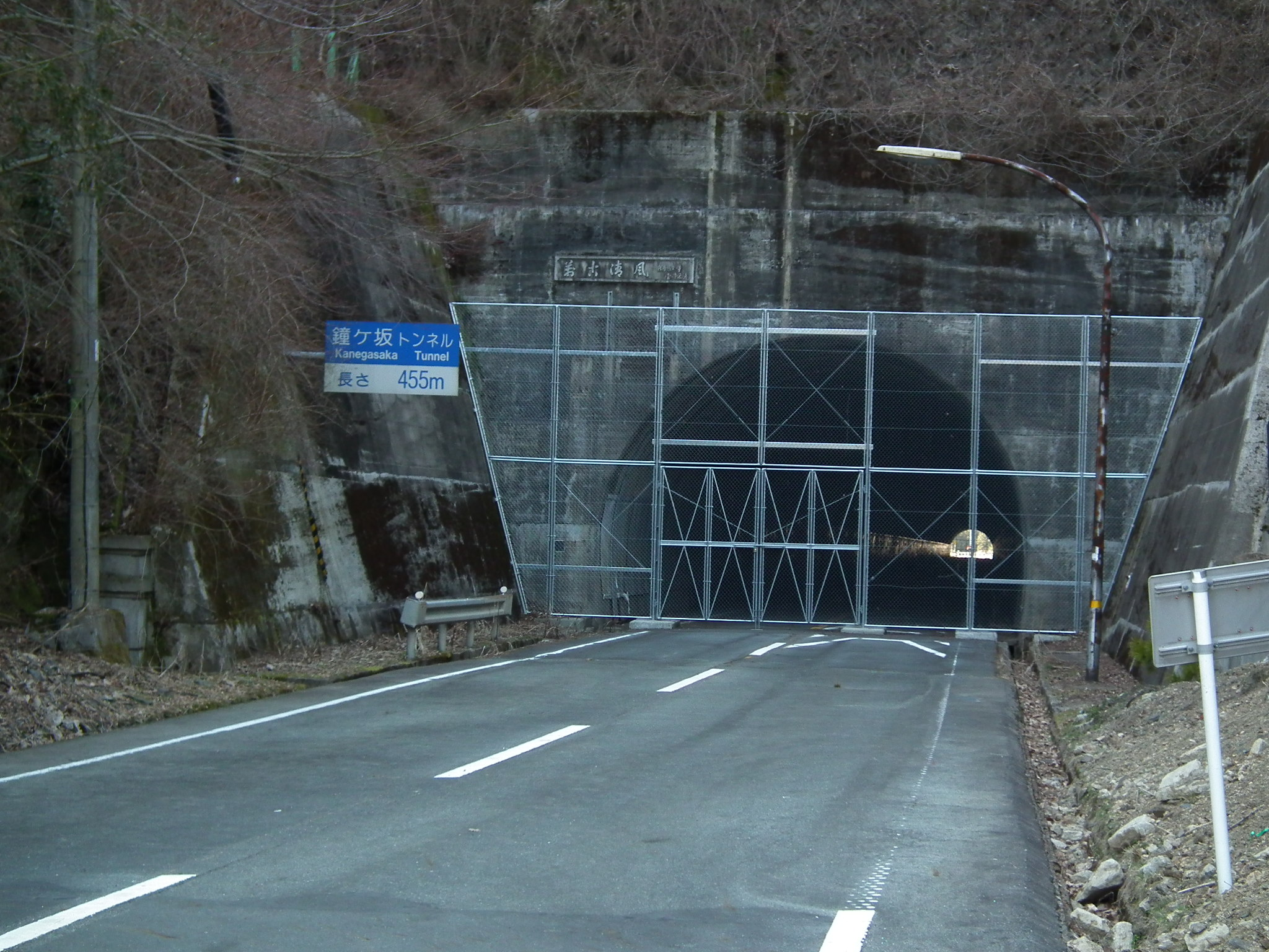 Kanegasaka-Tunnel